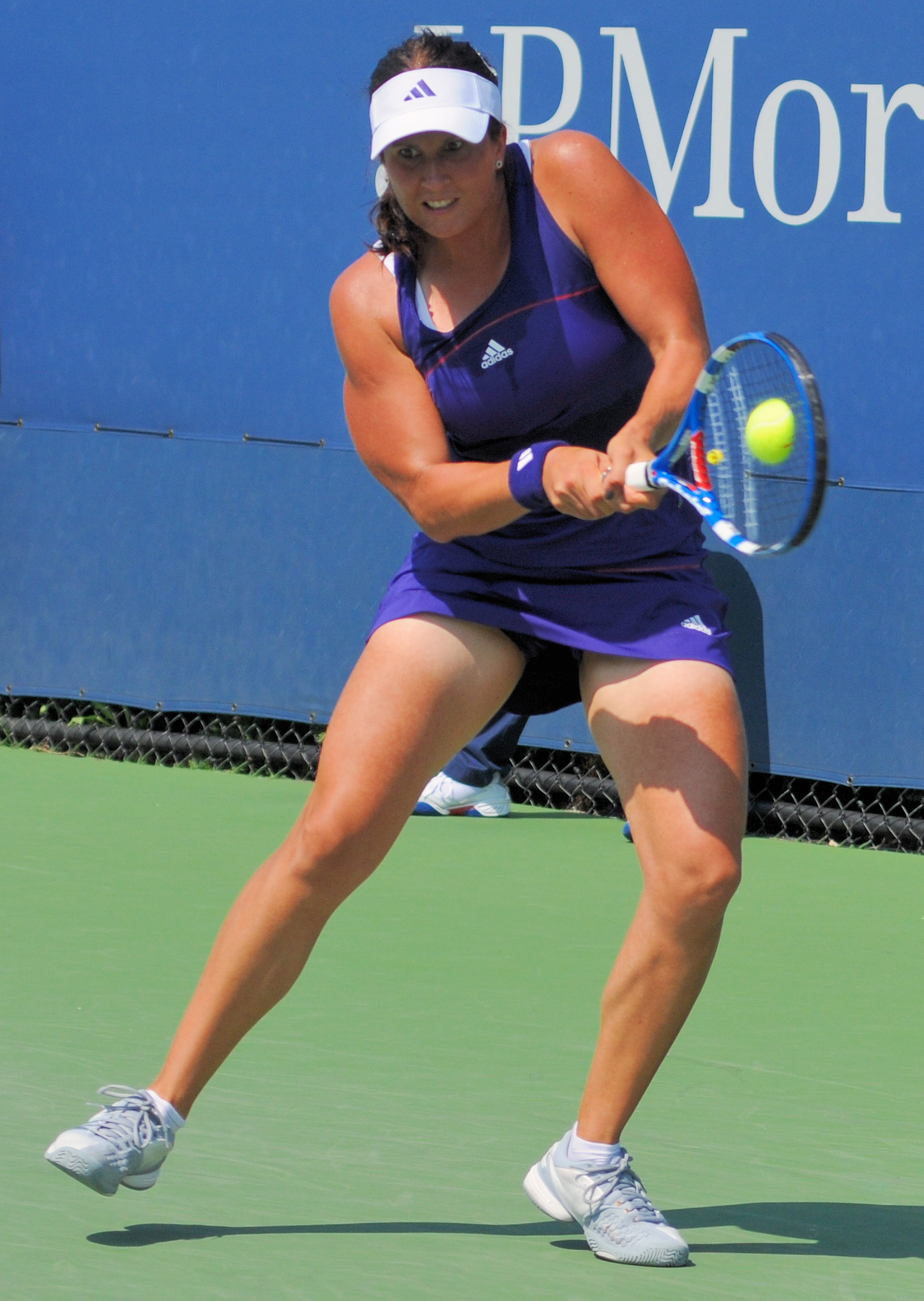 Sofia Arvidsson - US Open 2010